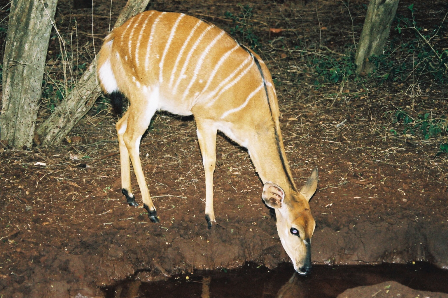 Tragelaphus angasii — Nyala — South Africa — October 2003